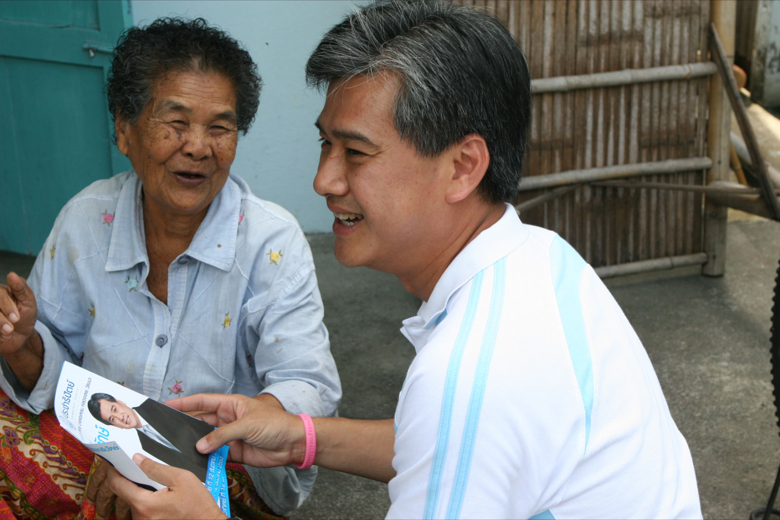 A work I did